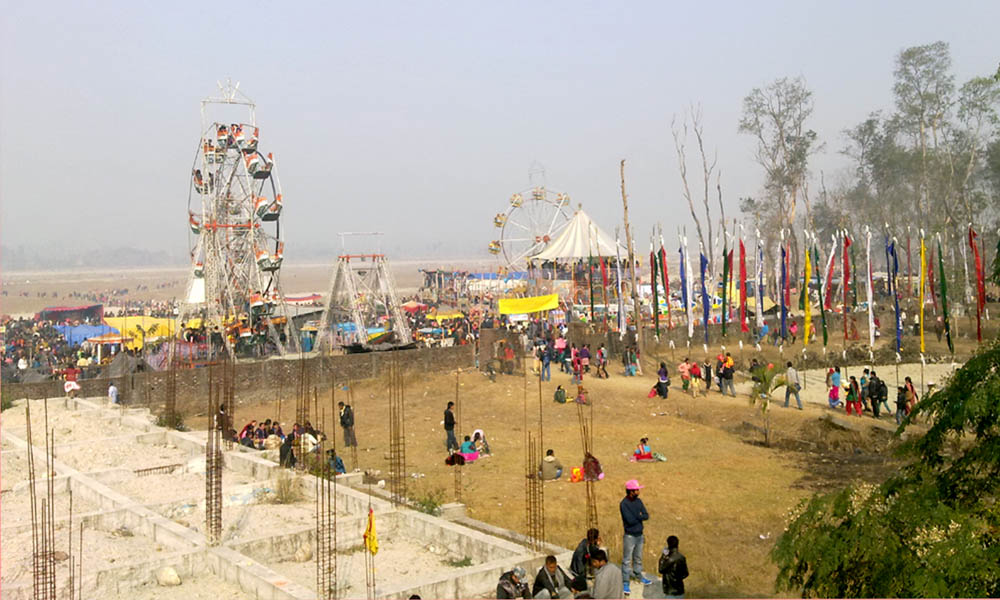 Crowd of fair (Kankai Mai Mela) festival